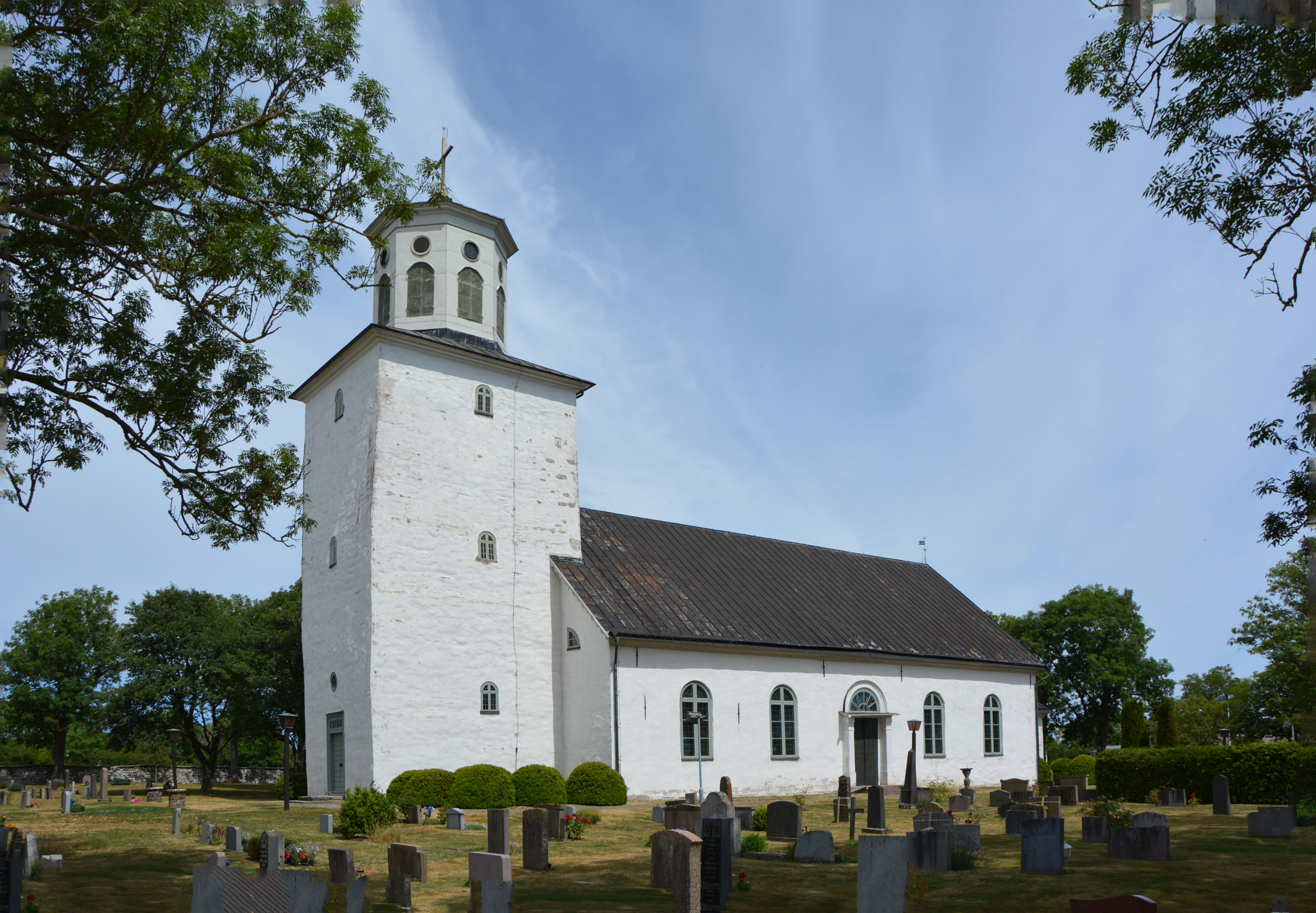 Högsrum Church. The exterior of the church from the south-west.